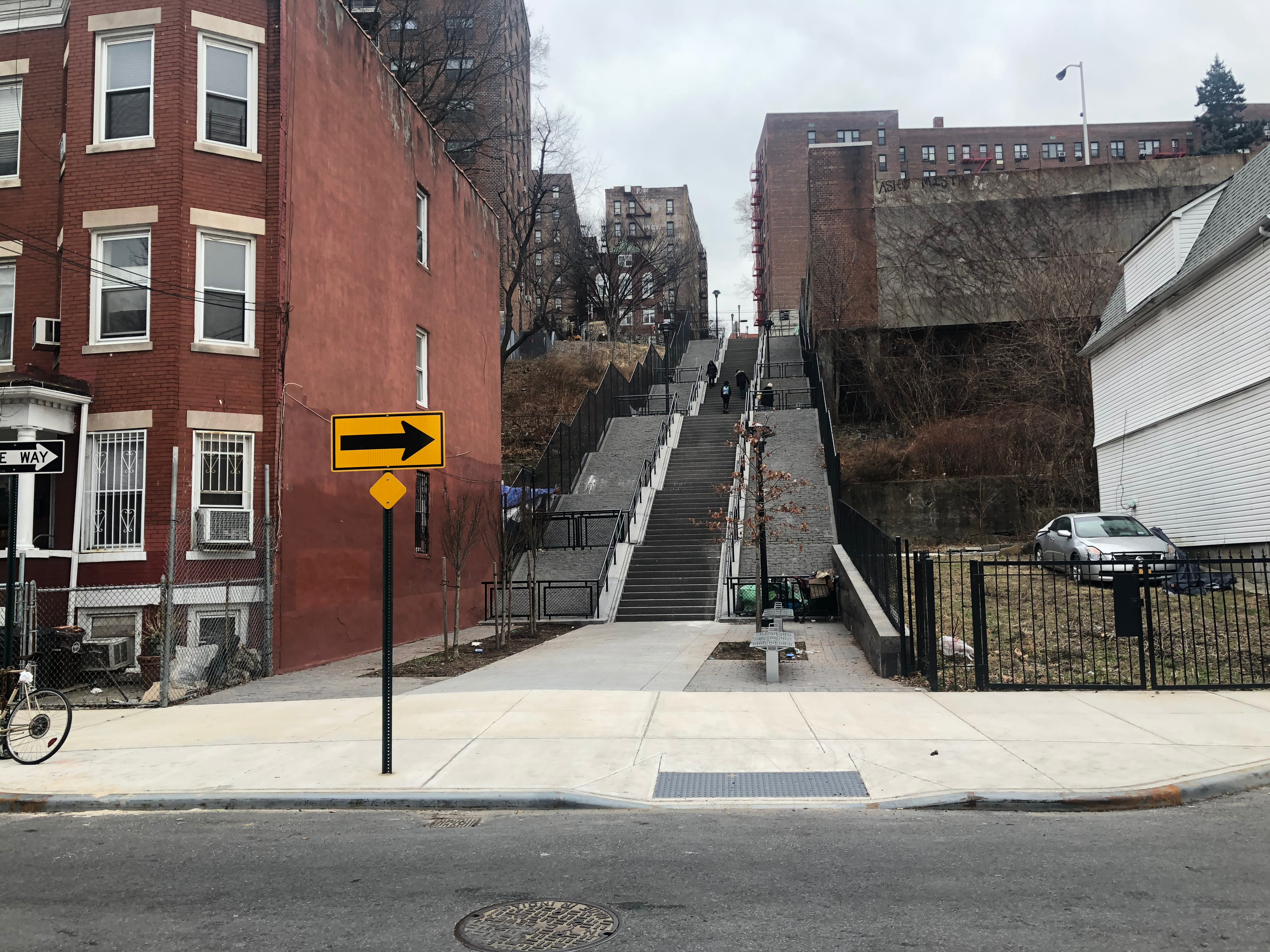 Step Street at West 229th Street Heath Avenue going to Kingsbridge Terrace.